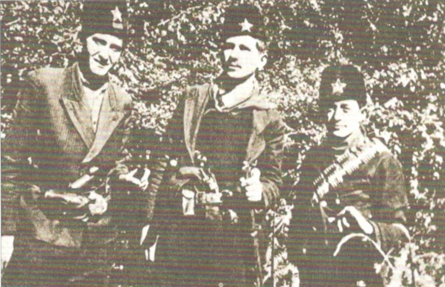 Macedonian partisan freedom fighters unit "Dimitar Vlahov" from Veles region in 1942